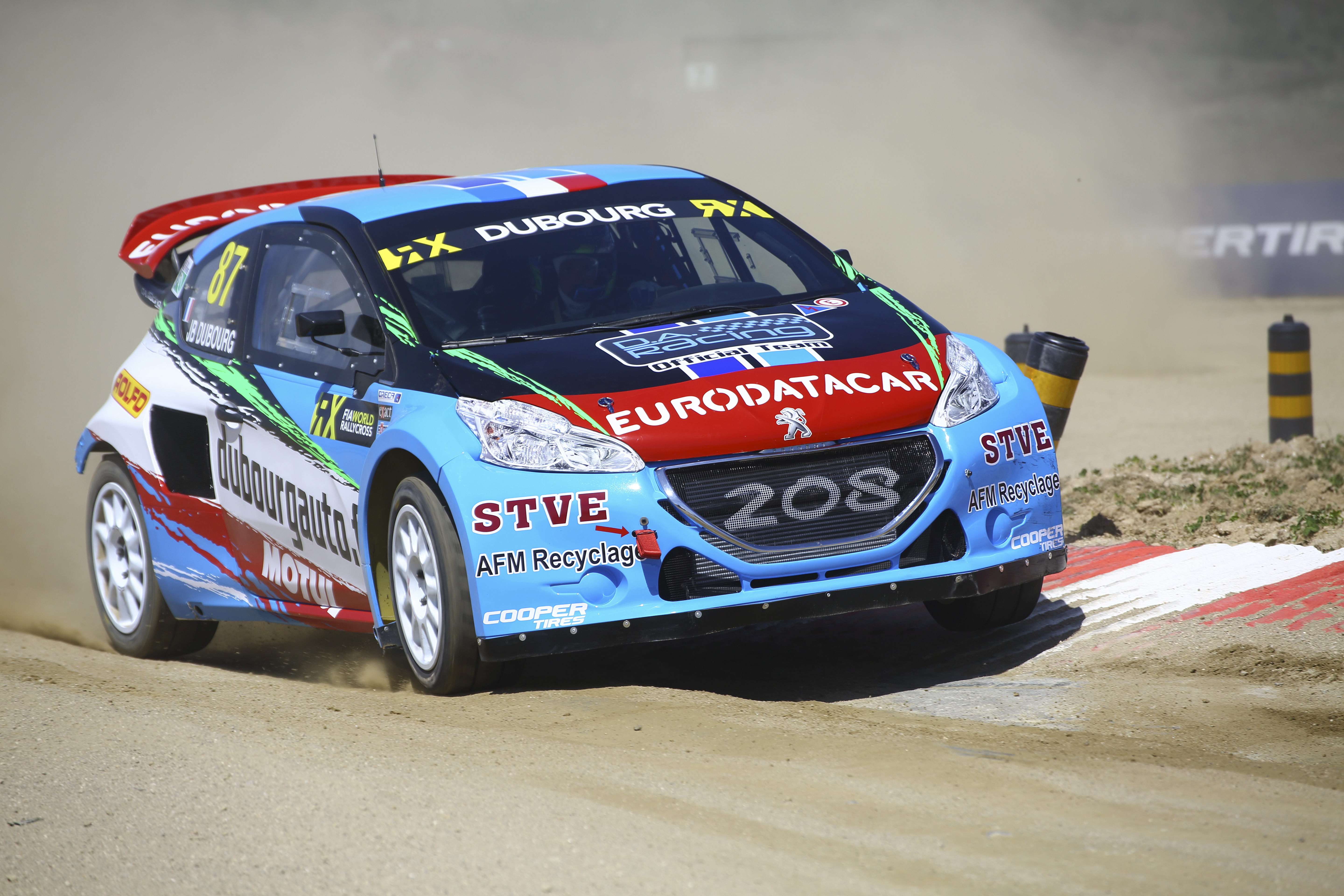 FIA World RX of Portugal 2017 in Montalegre